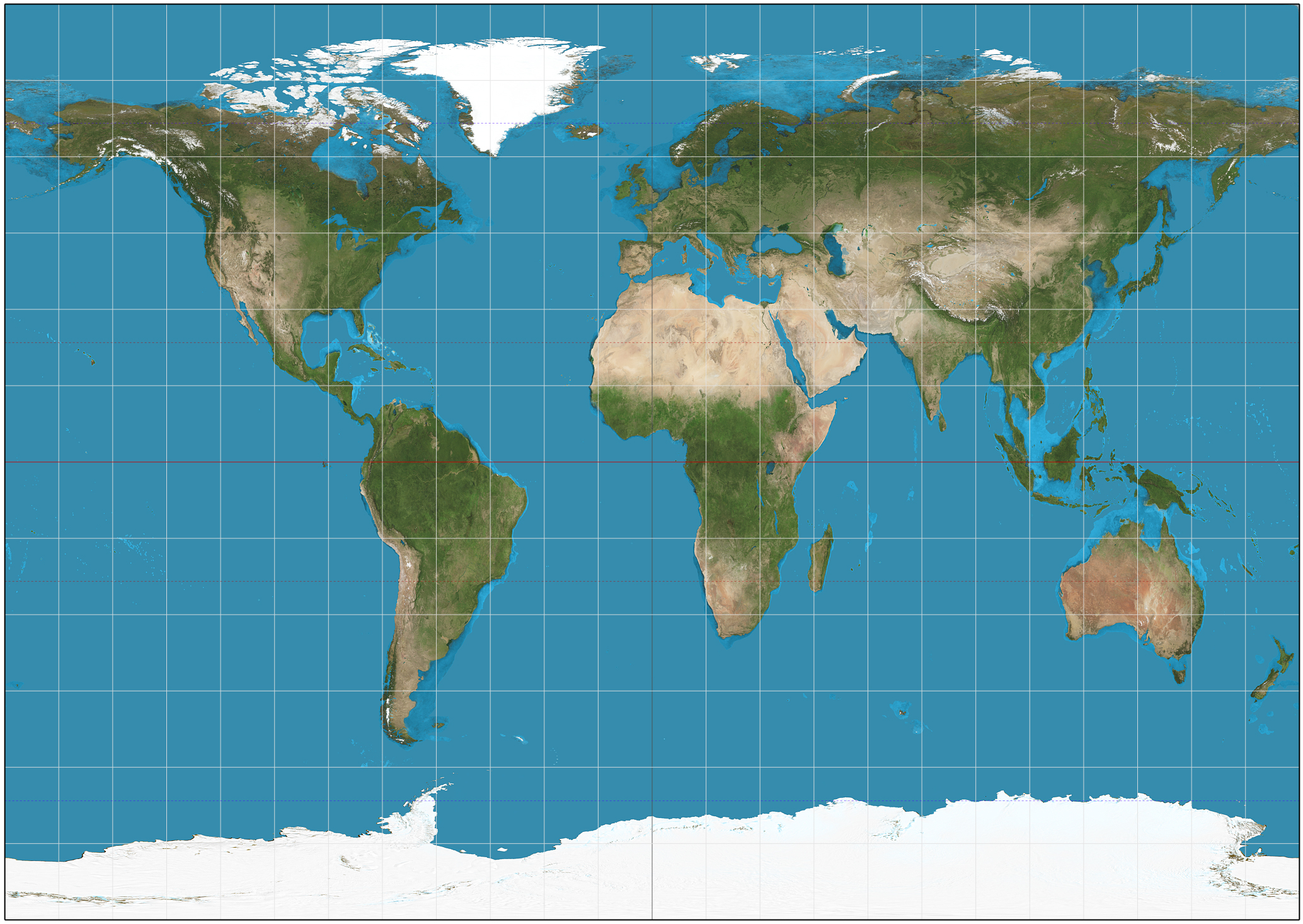 Gall isographic projection. 15° graticule. Imagery is a derivative of NASA’s Blue Marble summer month composite with oceans lightened to enhance legibility and contrast. Image created with the Geocart map projection software.